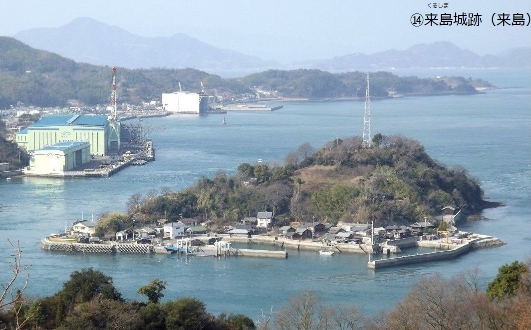 Kurushima